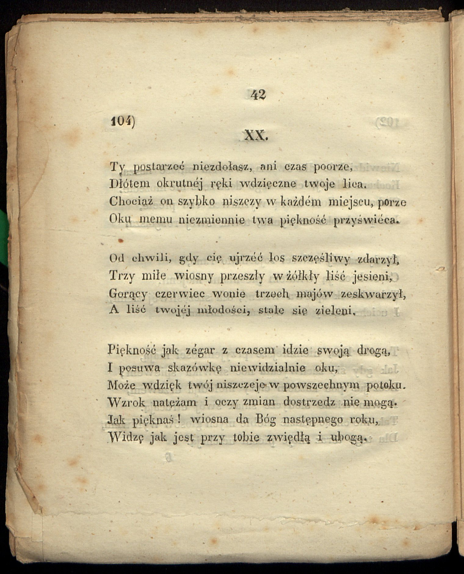 Shakespeare's Sonnets Konstanty Piotrowski Polish translation sonnet 104 page 42